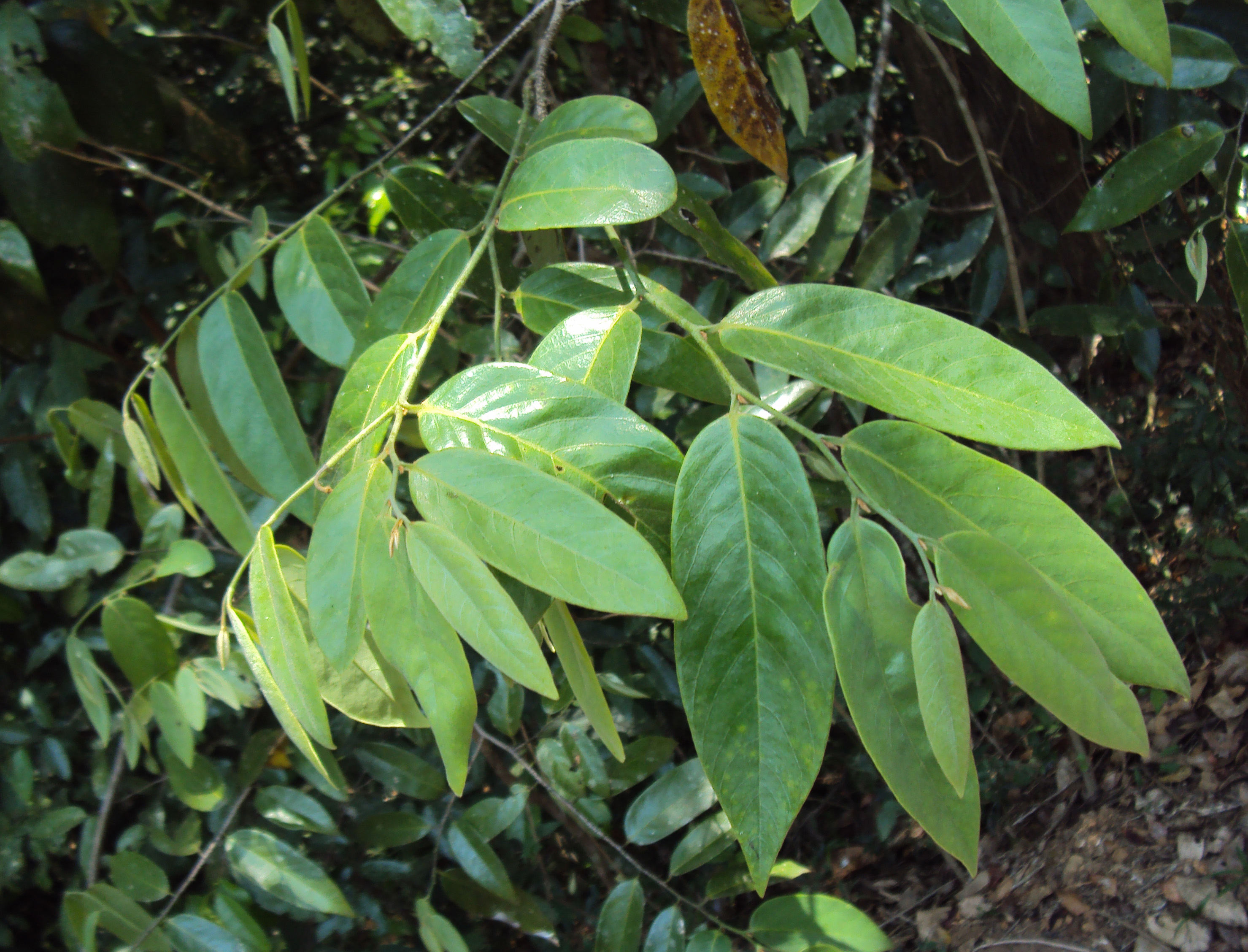 Desmos chinensis